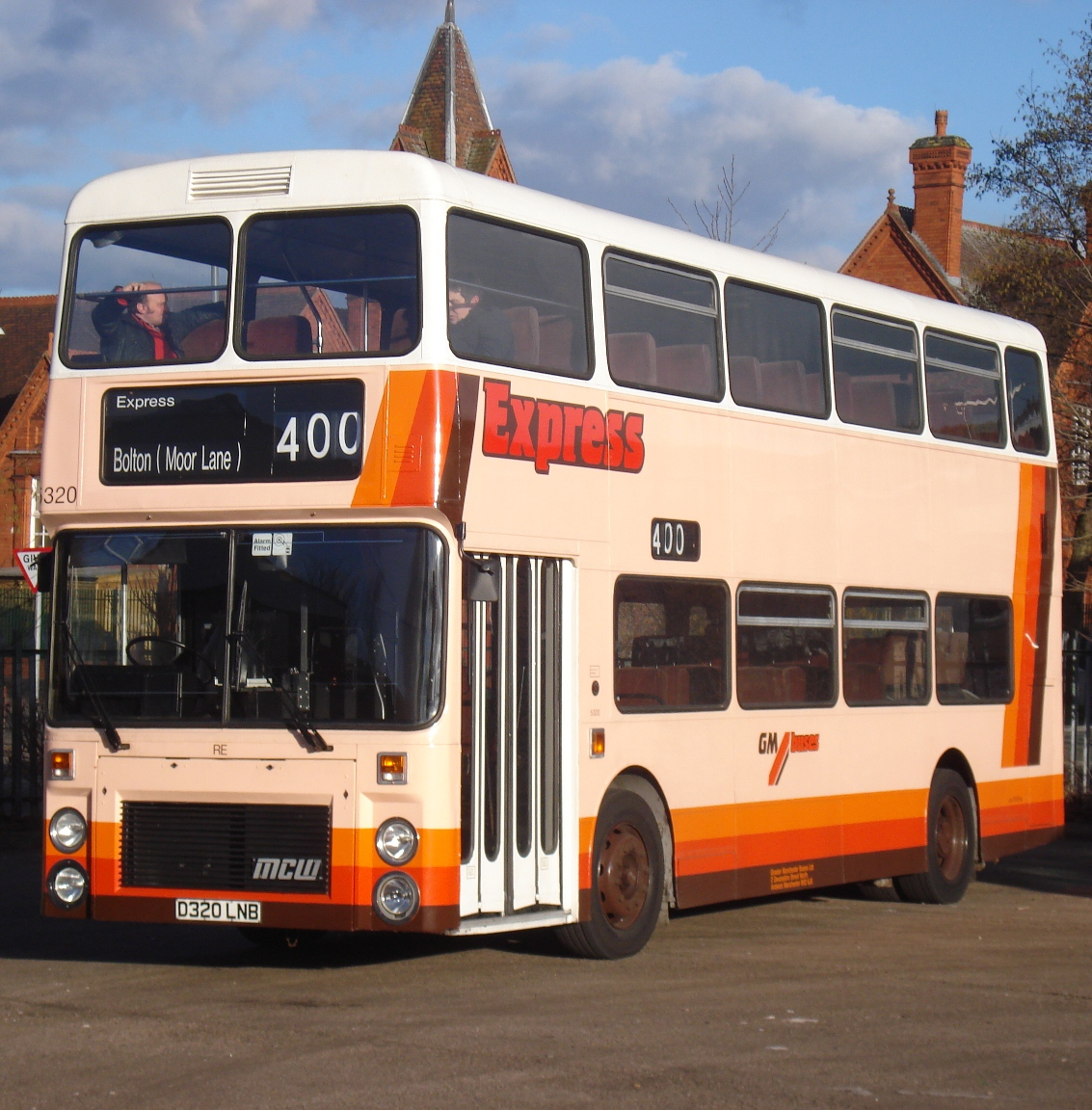 Preserved ex-Greater Manchester last MCW Metrobus D320 LNB (5320), restored into original GM Buses' Express livery by the SELNEC Preservation Society. Seen at the Metrobus event at Aston Manor Transport Museum on 14th March 2010